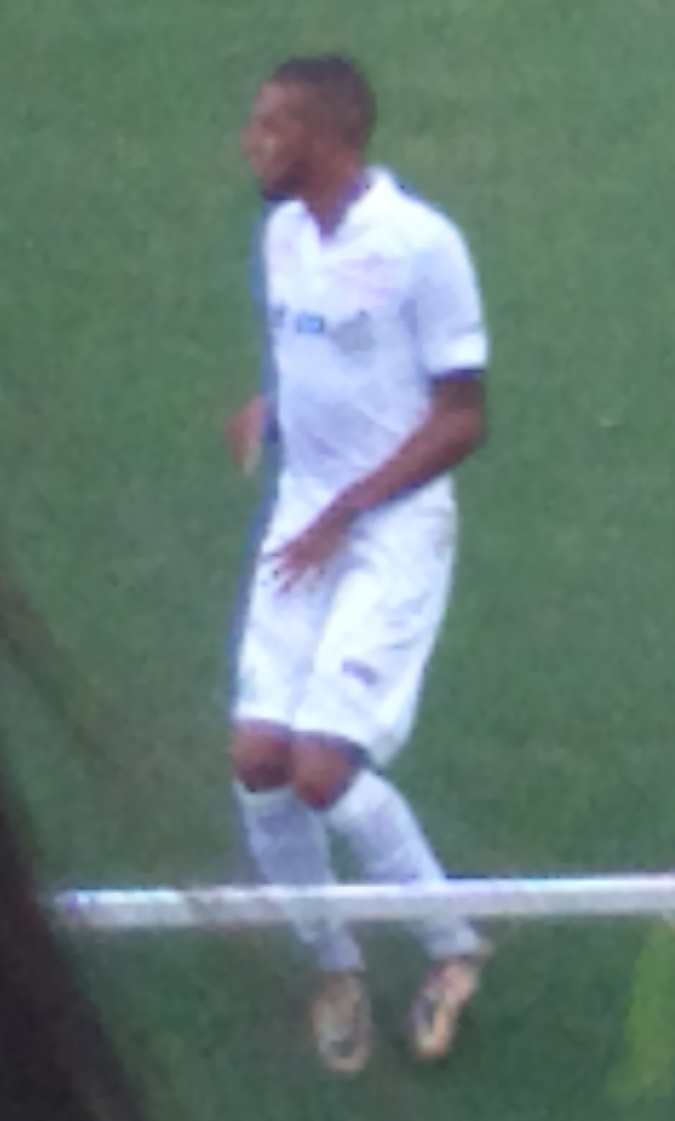 Paulinho playing for Santos against São Bernardo on 30 January 2016, at the Vila Belmiro.